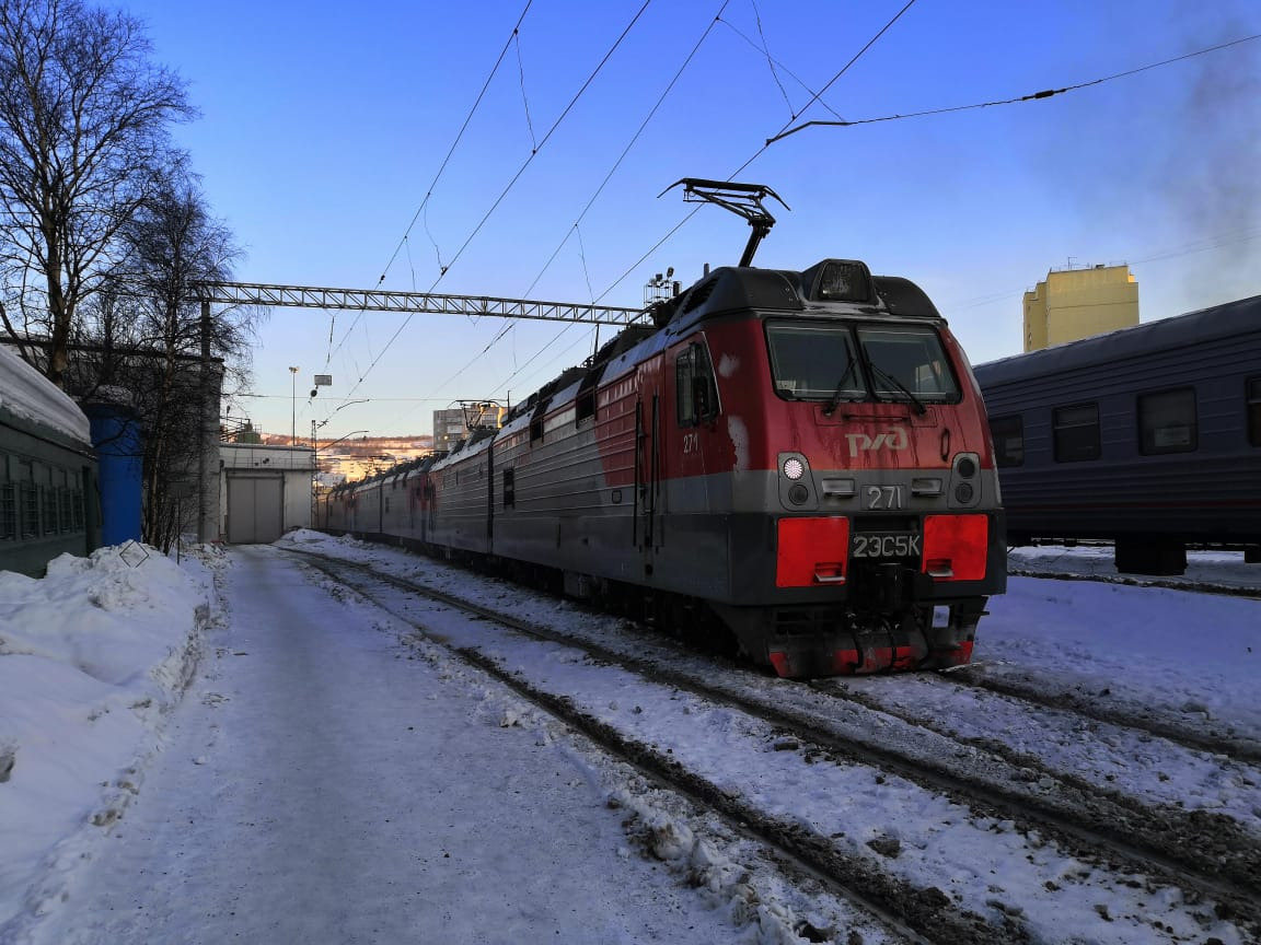 Электровоз 2ЭС5К-271